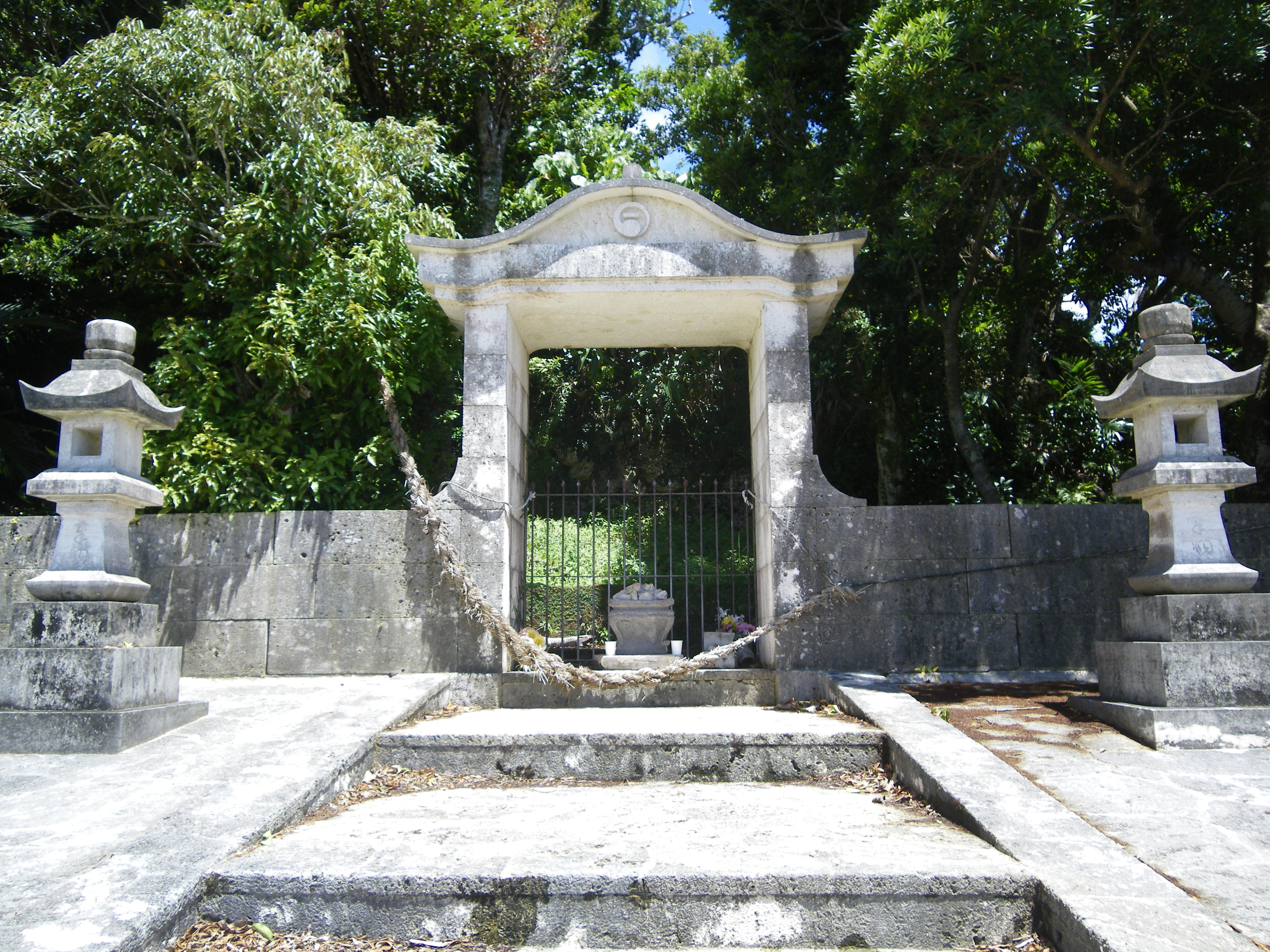 Nasu no Utaki, according to a folklore, the mausoleum of all three kings of the Shunten Dynasty in this utaki.